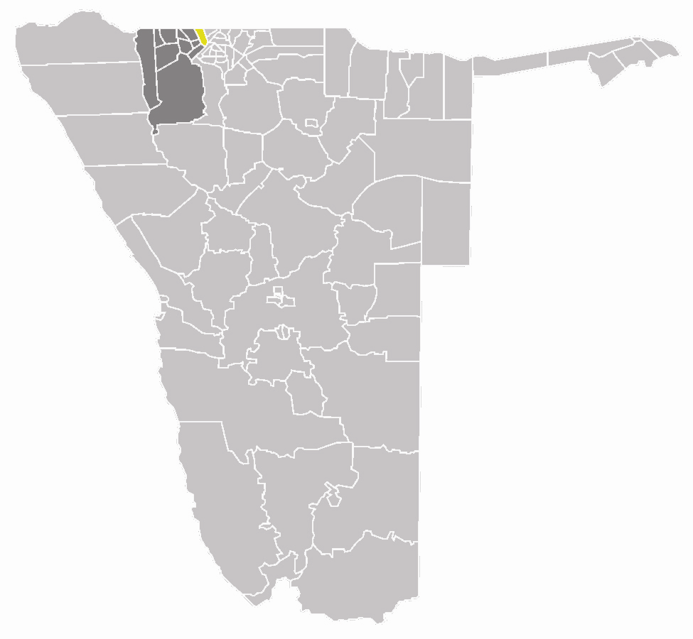 map of the Etayi constituency within the Omusati region, Namibia